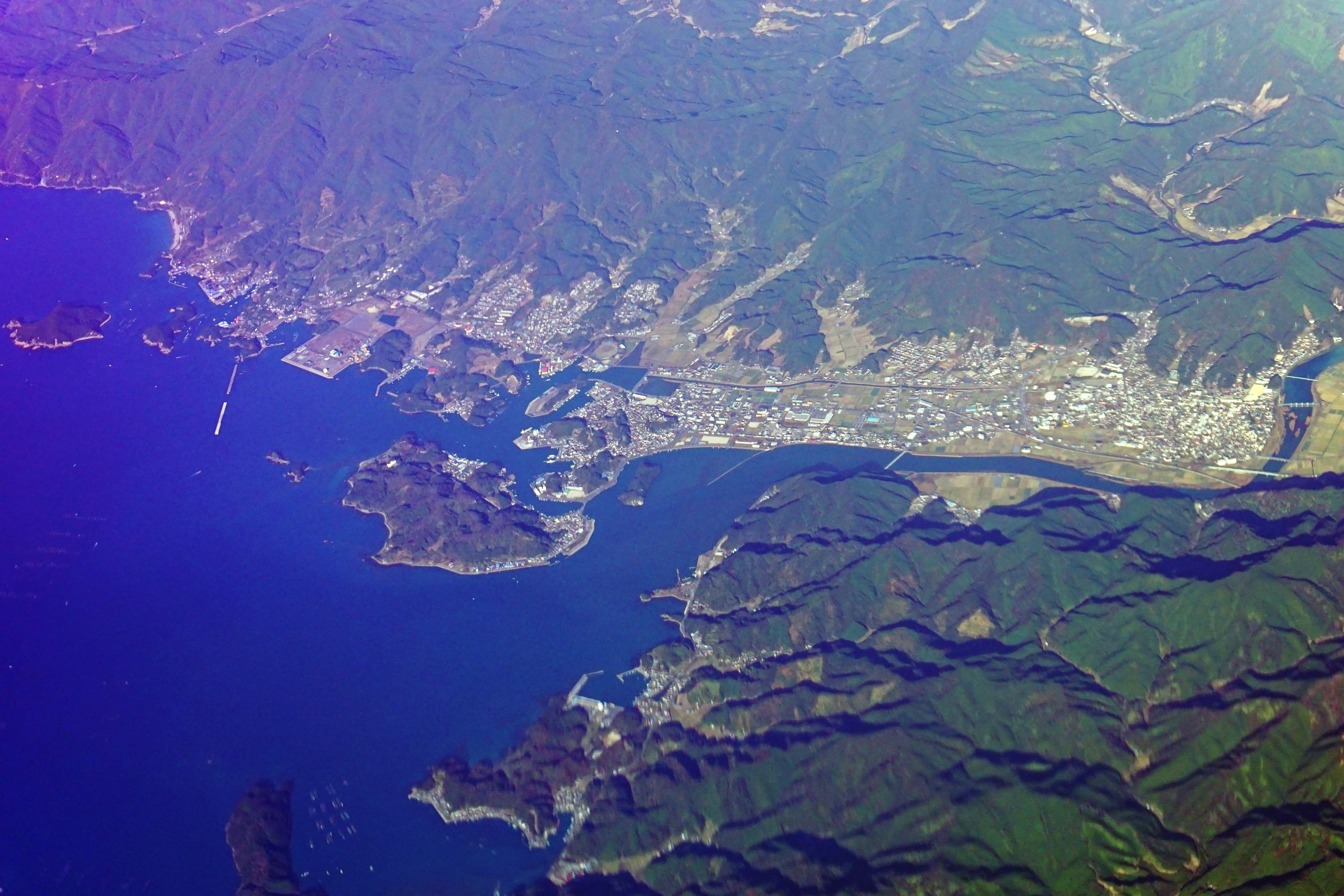 The mouth of the Matsuda River on Sukumo Bay from the sky in Sukumo City, Kochi prefecture, Japan